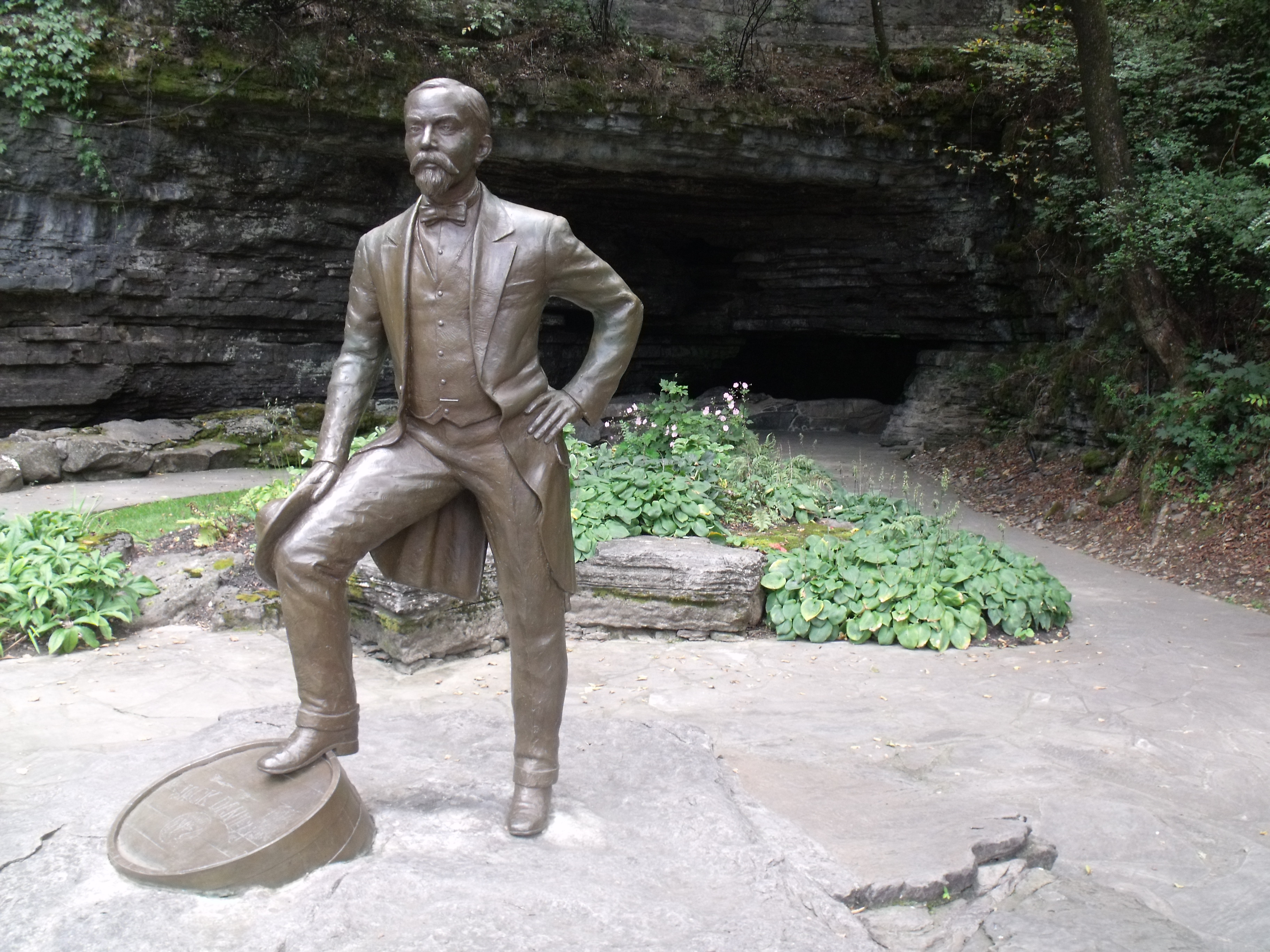 Statue of Jack Daniel in front of subterranean fresh water spring at the Jack Daniel's Distillery